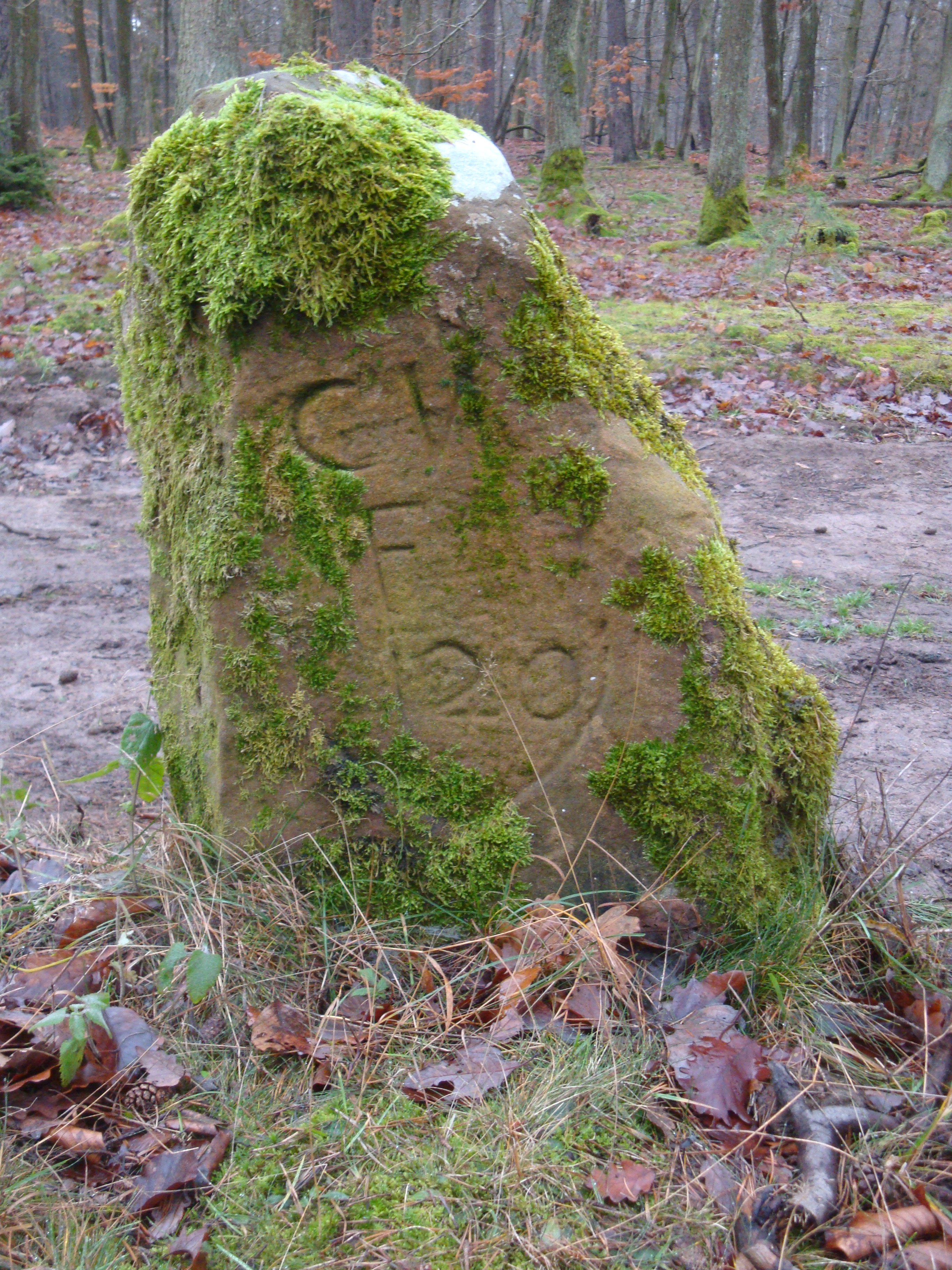 Standing Stone ( Menhir ) Known by the name ː Der lange Mann